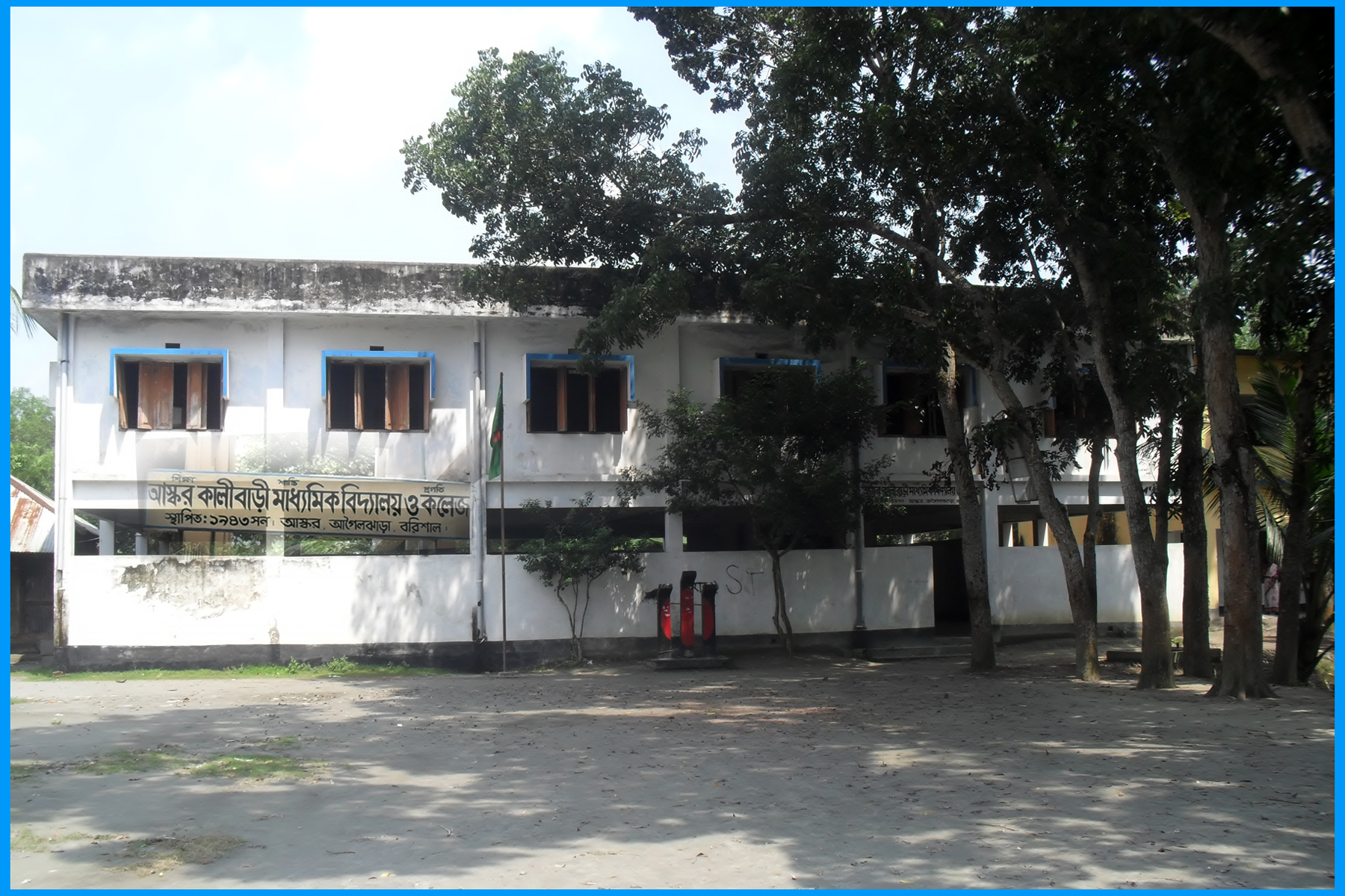 Askar Kalibari Secondary School Building